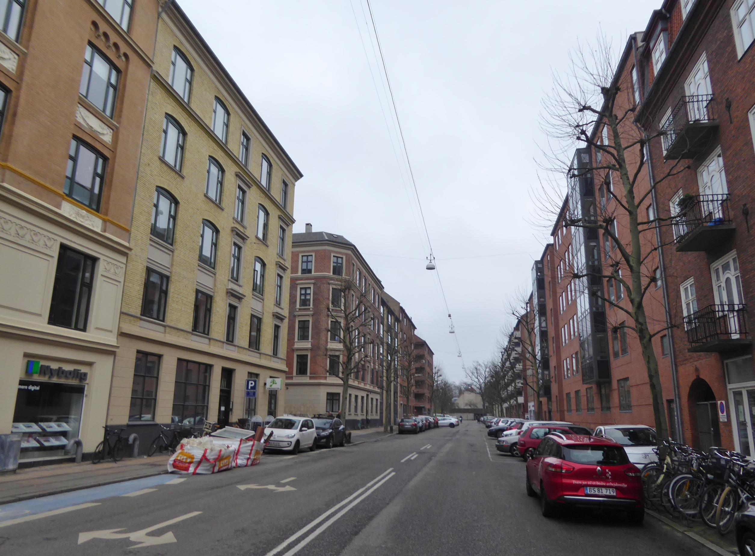 The street Sanky Nikolaj Vej in Frederiksberg in Copenhagen.